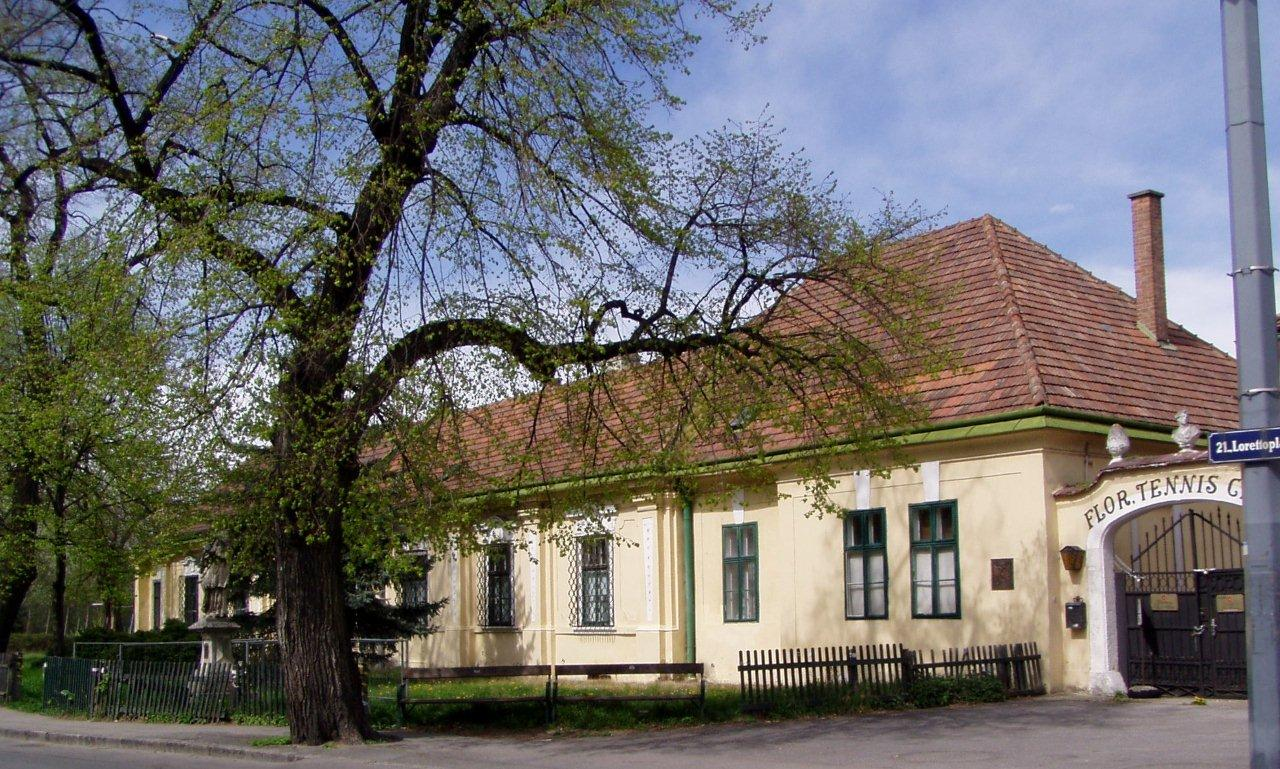 Small baroque manor with 20.000 m2 garden dating back to the late 17th century, centre of former rural village, which became part of the 21st Viennese district in 1904. Owned by Monastery of Klosterneuburg since 1841, progressive decay without countermeasures since 2003, housing project with blocks up to five floors directly behind the monument under construction from 2011